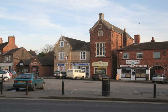 Wragby Market Place A small market town in the shadow of the Lincolnshire Wolds.